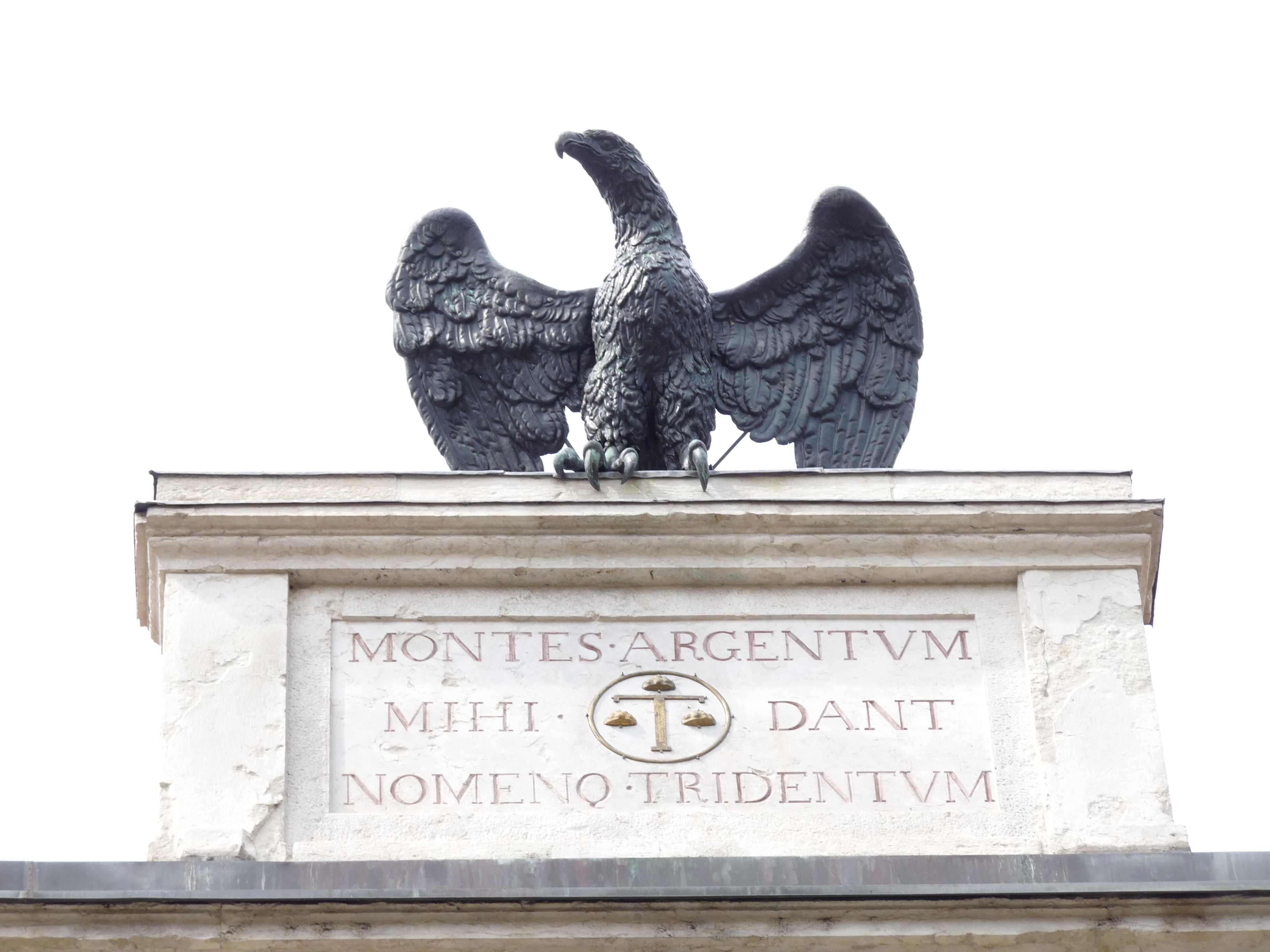 Trento (Italy): bronze eagle (by D. Furlani, XIX century) on top of the old town hall in via Belenzani, with the motto of fra Bartolomeo da Trento: "The mountains give me silver and the name of Tridentum"— in: MONTES ARGENTVM MIHI DANT NOMENQ TRIDENTVM